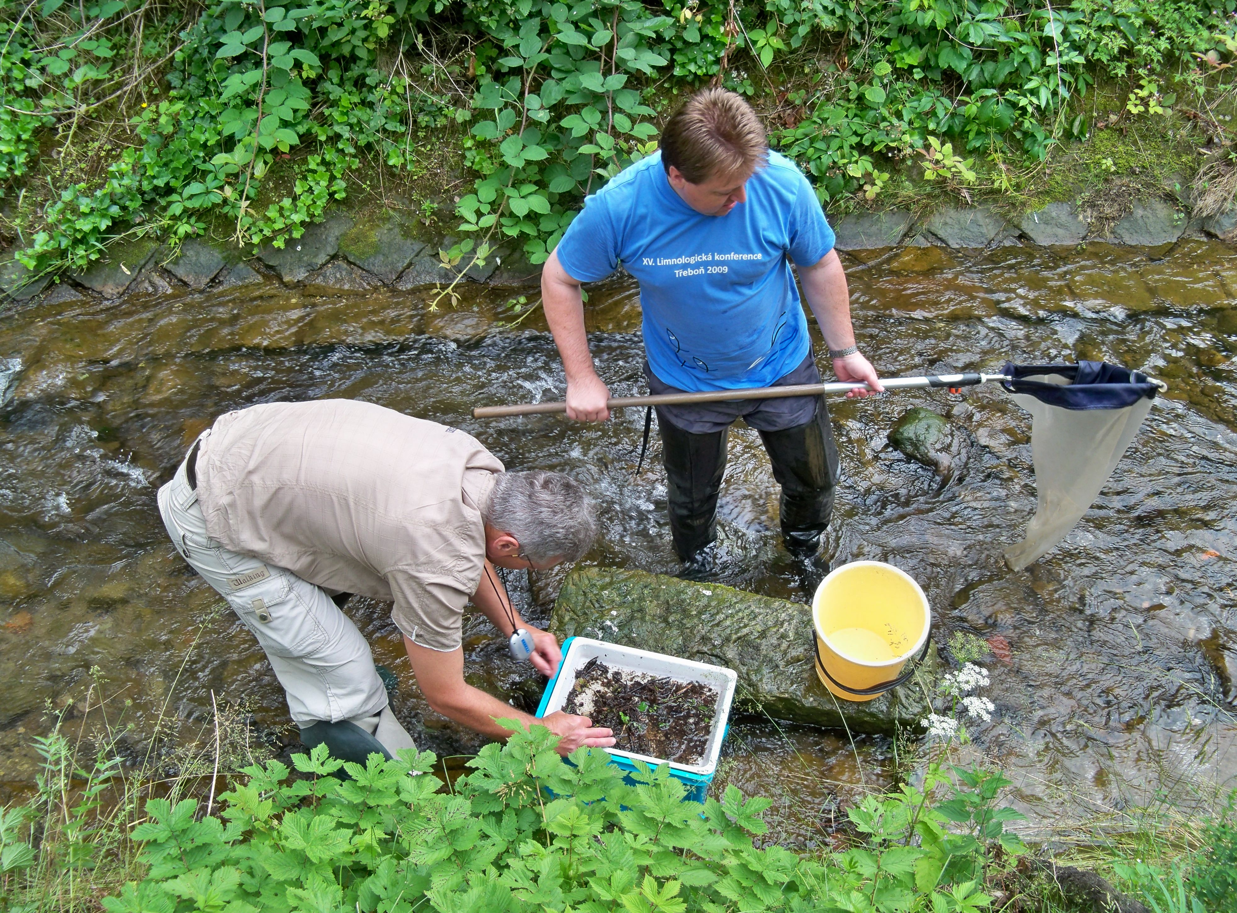 Czech hydrobiologist collecting zoobenthos in Krippenbach stream (Bad Schandau)